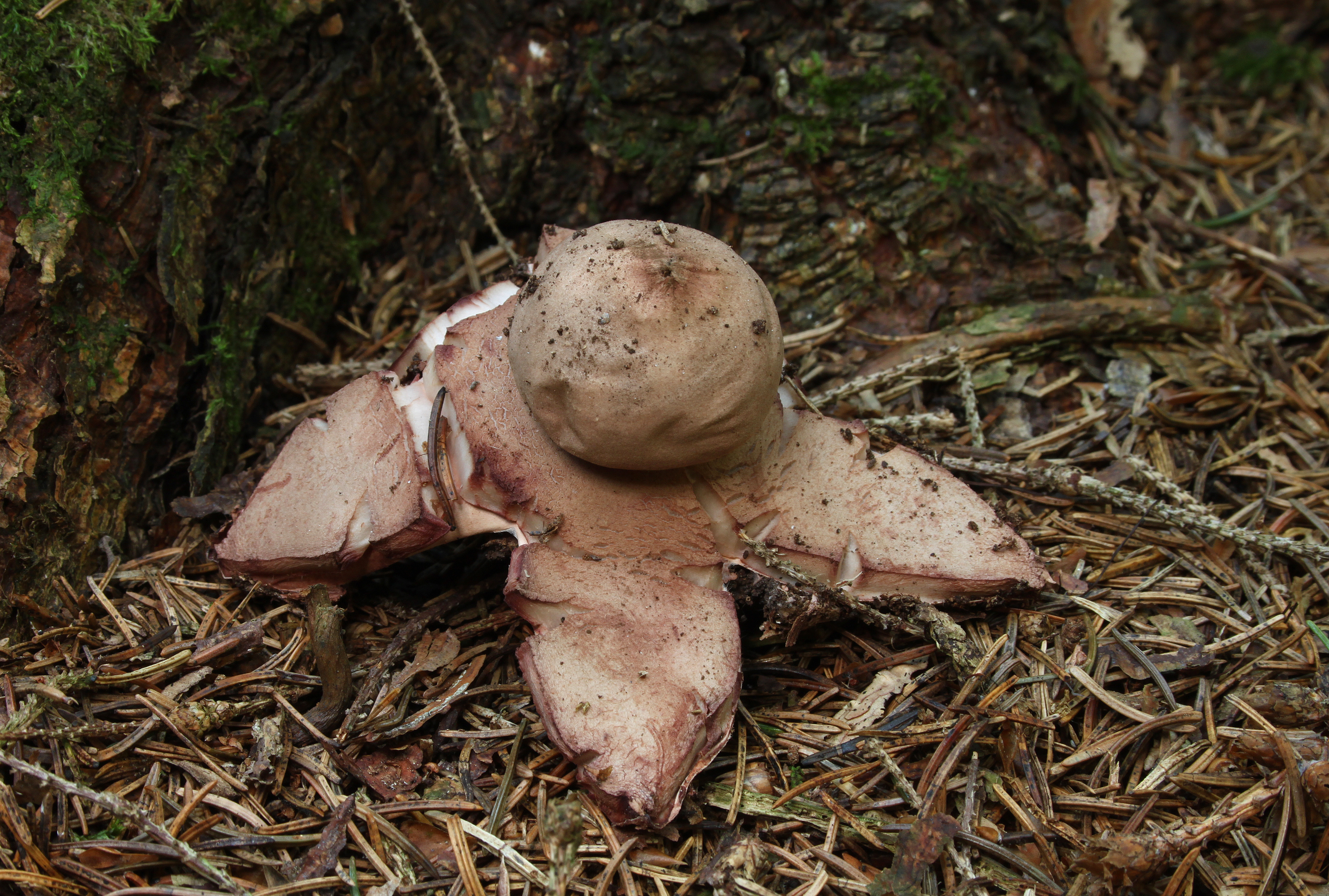 Earthstar, Geastrum rufescens, Family: Geastraceae, Location: Germany, Eggingen